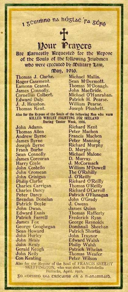 In Memory of 1916